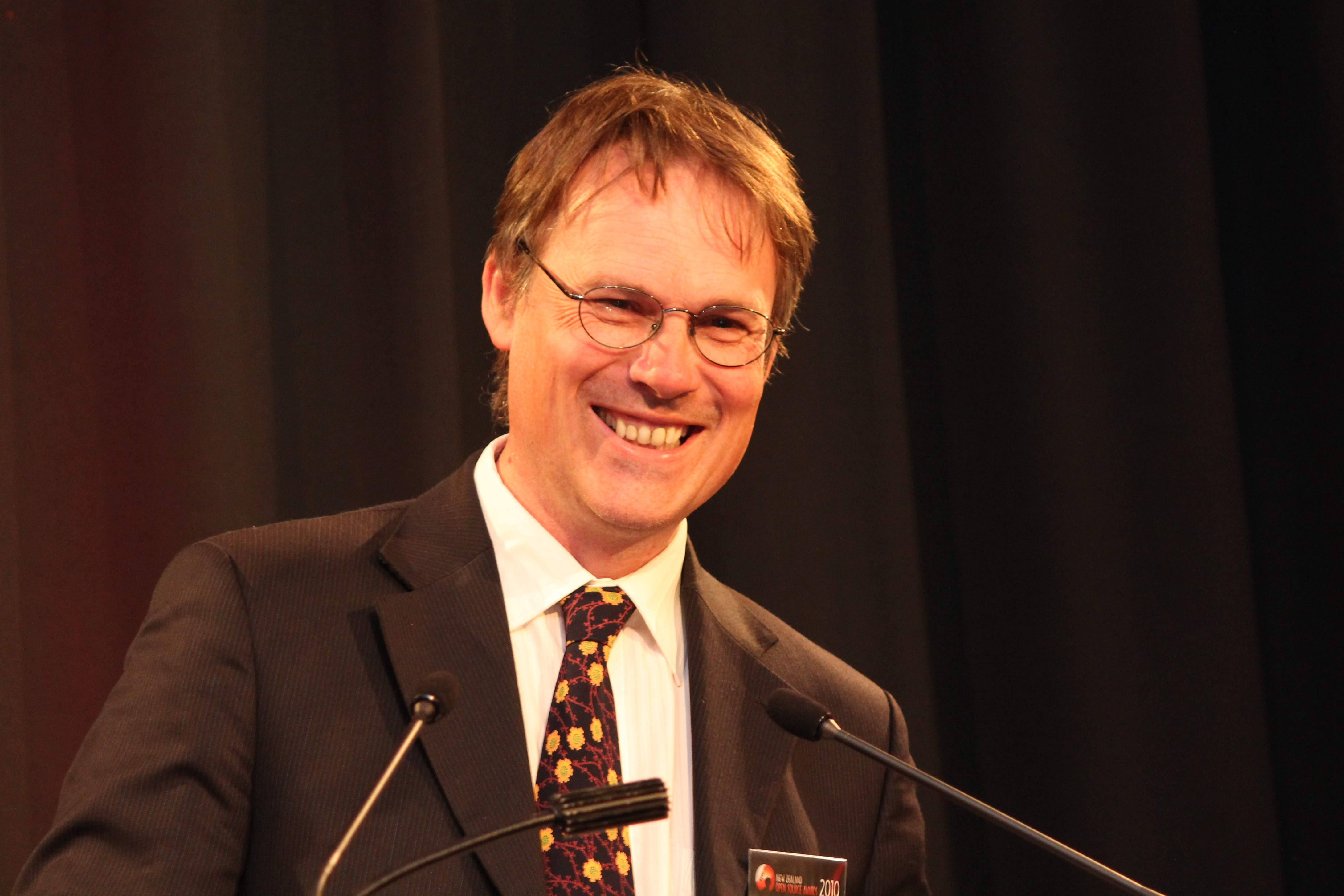 New Zealand Open Source Awards ceremony in Wellington on November 9, 2010